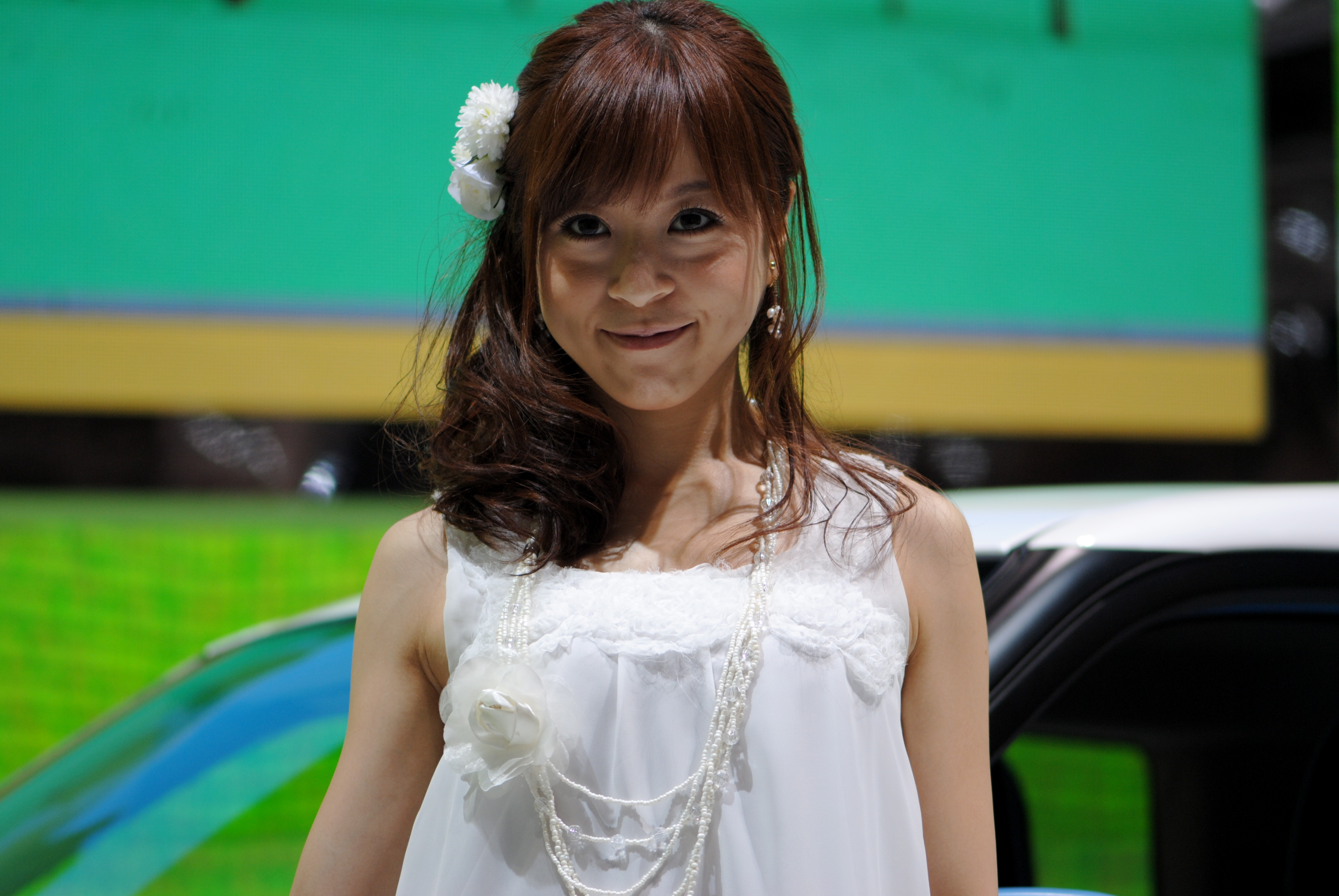 Tokyo Motor Show 2009